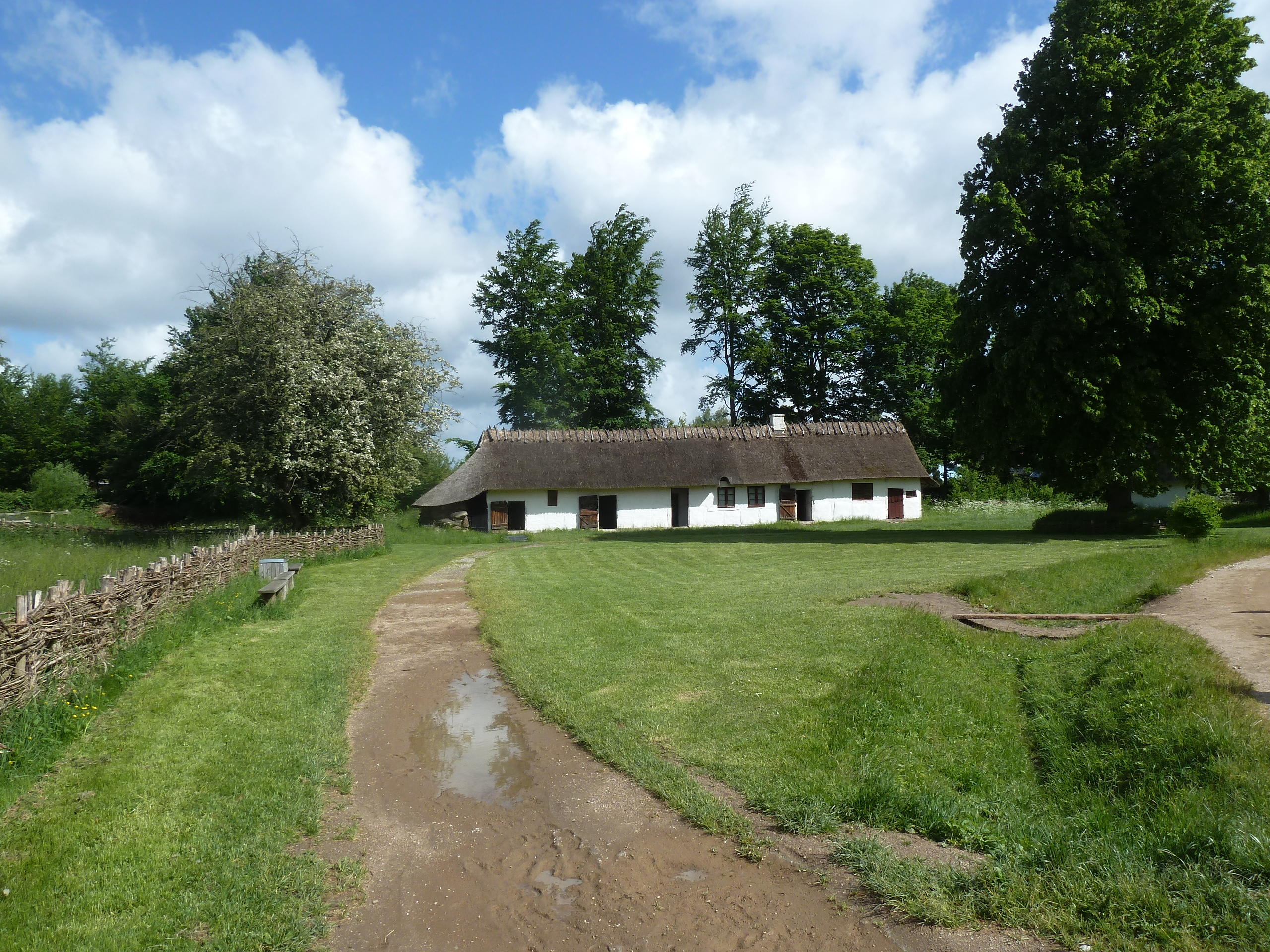 Smallholder house from Taagense, Lolland, now on Frilandsmuseet (the open air museum) north of Copenhagen.